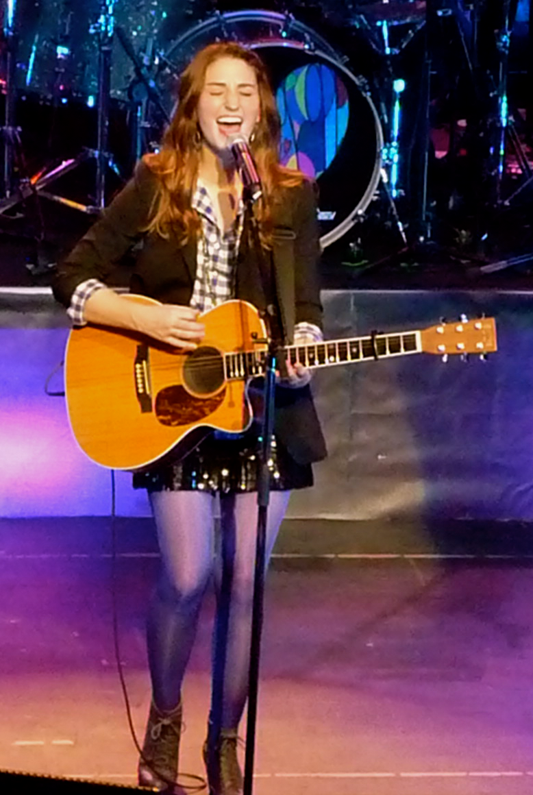 Sara Bareilles at the Warfield, San Francisco, CA. December 16th, 2010.